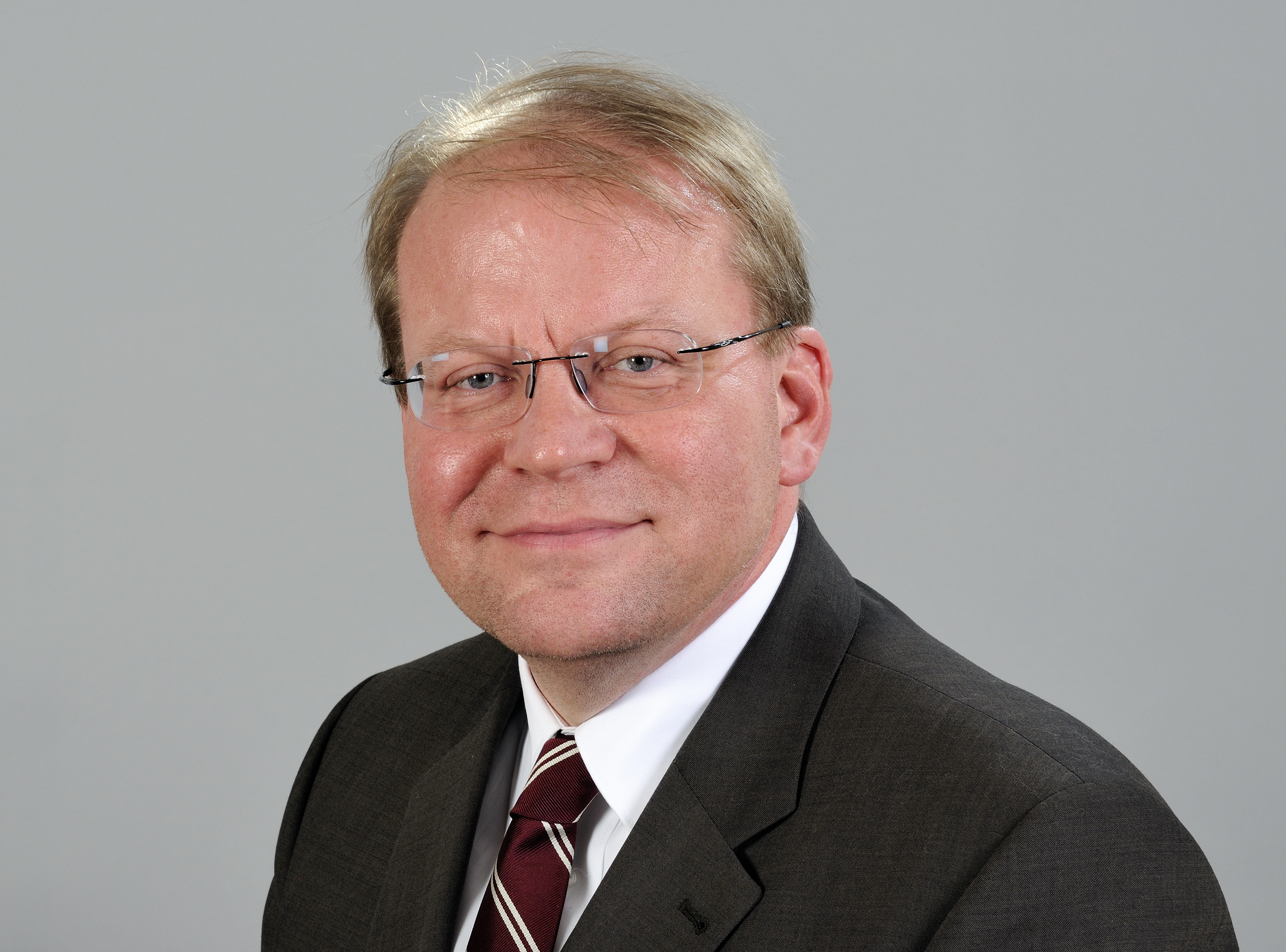 Thorsten Karge, Berlin politician (SPD) and member of the Abgeordnetenhaus of Berlin (as of 2013).